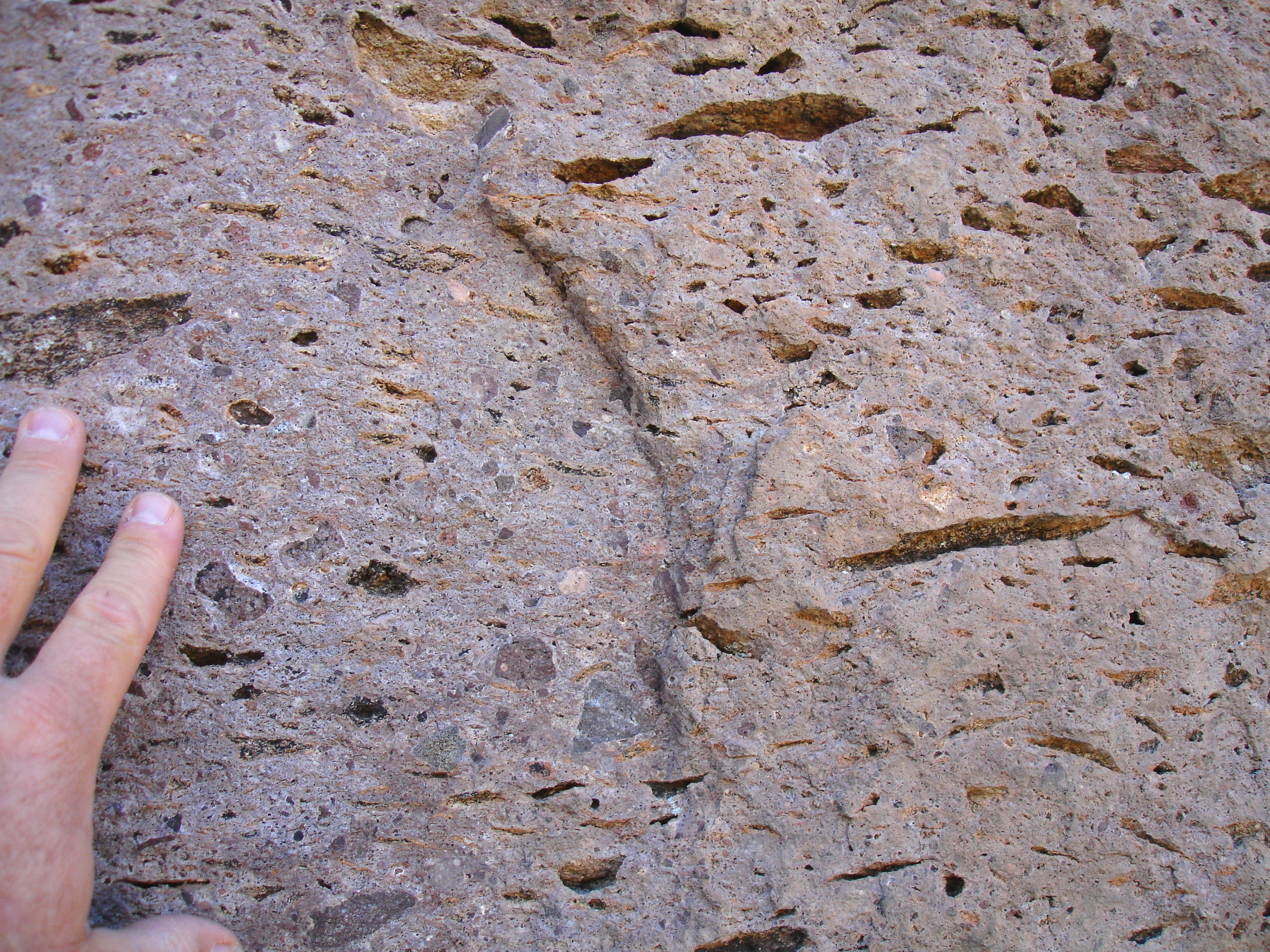 Welded ignimbrite; part of the Divisadero Tuff, in the Sierra Madre Occidental volcanic field in Mexico. Elliptical holes in the rock are from strongly flattened pumice fragments (fiamme) that have weathered out.